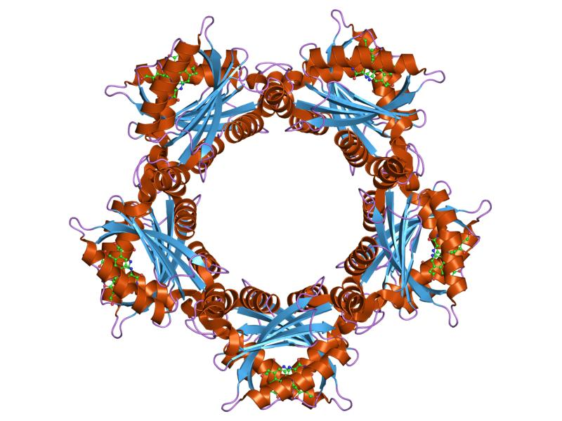 Cartoon representation of the molecular structure of protein registered with 1x0p code.